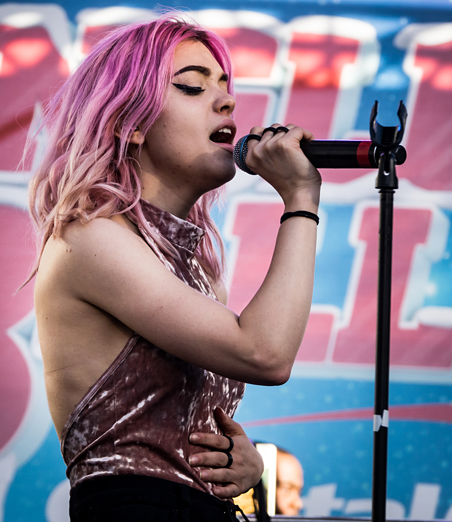 Hey Violet performing live at the 102.7 KIIS FM Jingle Ball Village, outside Staples Center in downtown Los Angeles, California, on Friday, December 2, 2016.